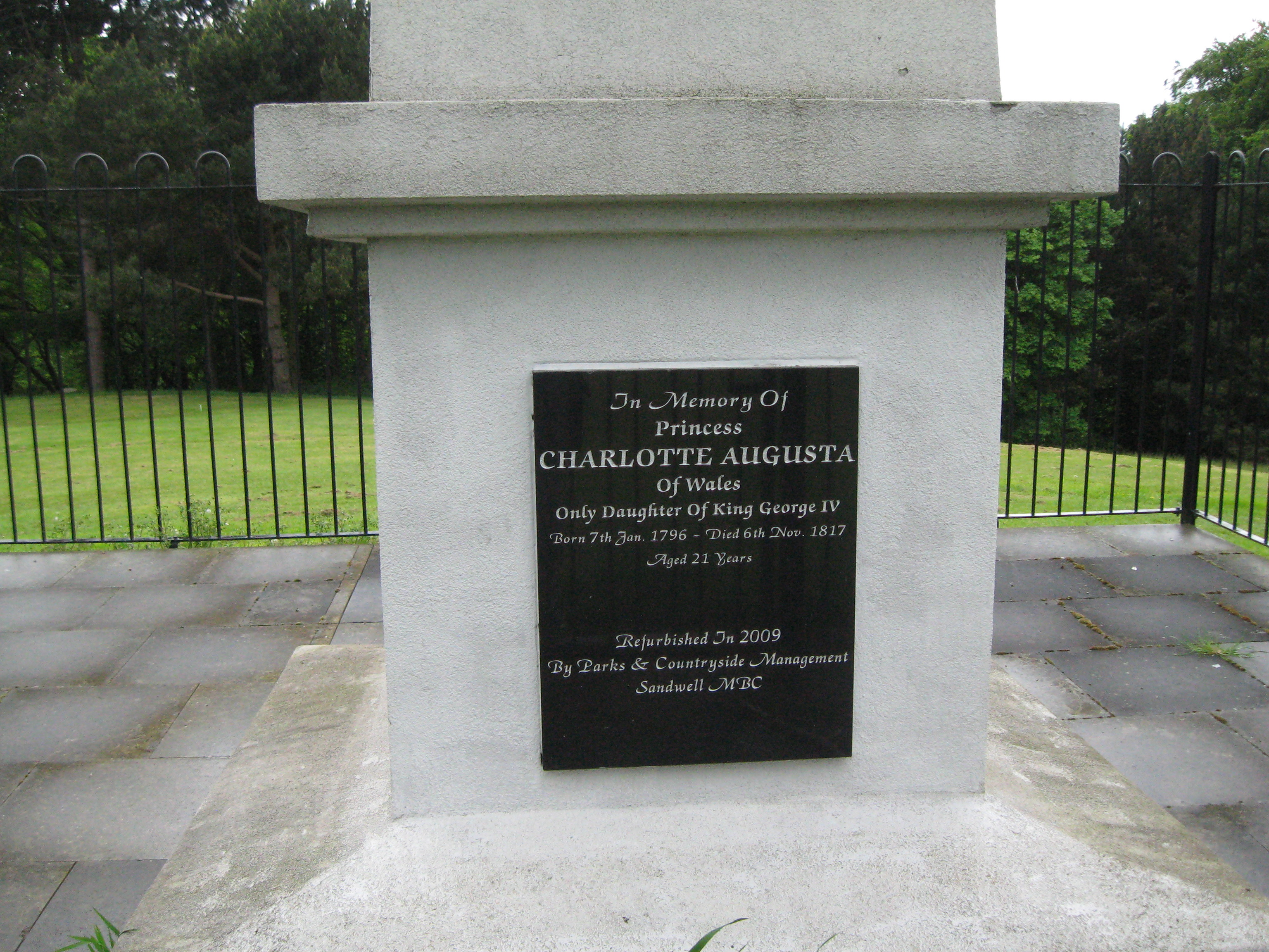 Memorial obelisk-Red House Park, Great Barr, Sandwell